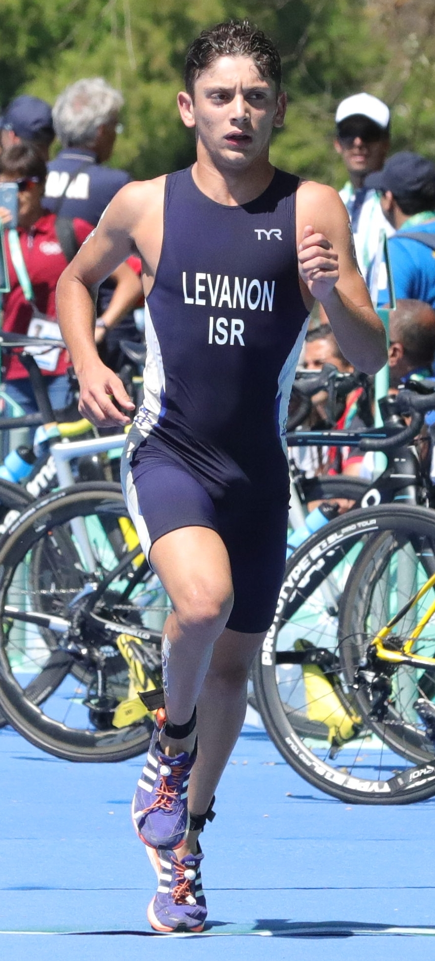 Boys Triathlon at the 2018 Summer Youth Olympic Games